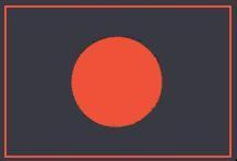 World War II ball of fire insignia of the Indian 5th Infantry Division